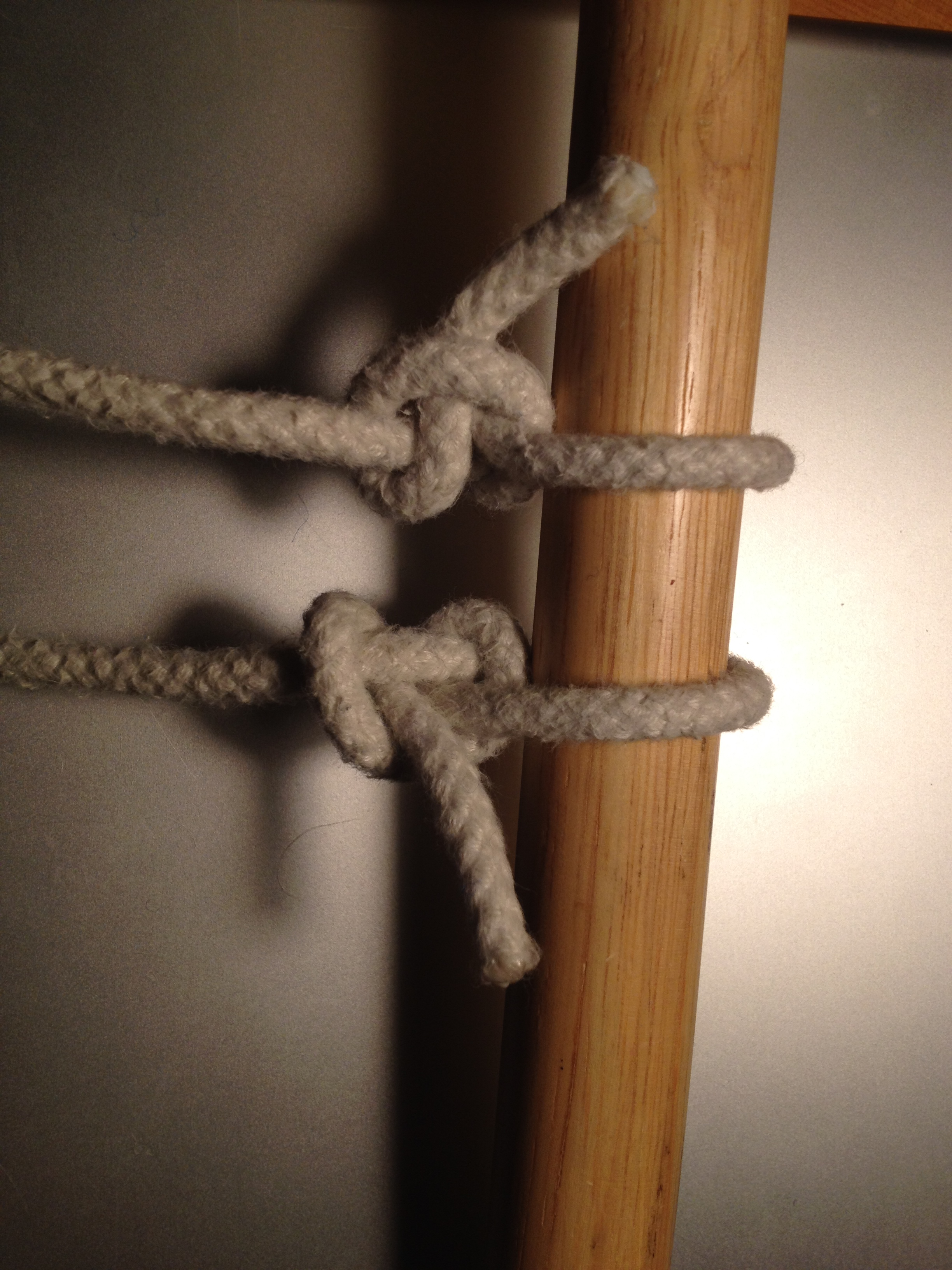 Meza volta bağı - Anele bağı - Buntline hitch, knot used to tie the end of a rope to a ring or to a beam.